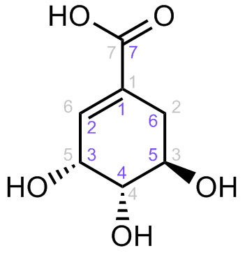 The numbering of carbon atoms of shikimic acid.